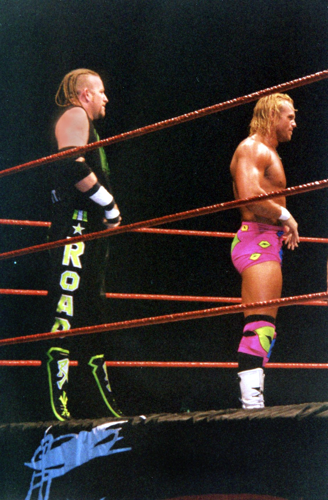 WWE - Newcastle Arena 030499 (7)